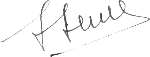 The signature of Major General of the French Army, F. Sevez, from the German Instrument of Surrender of 7 May, 1945, signed at Rheims, France. F. Sevez signed that document as witness.